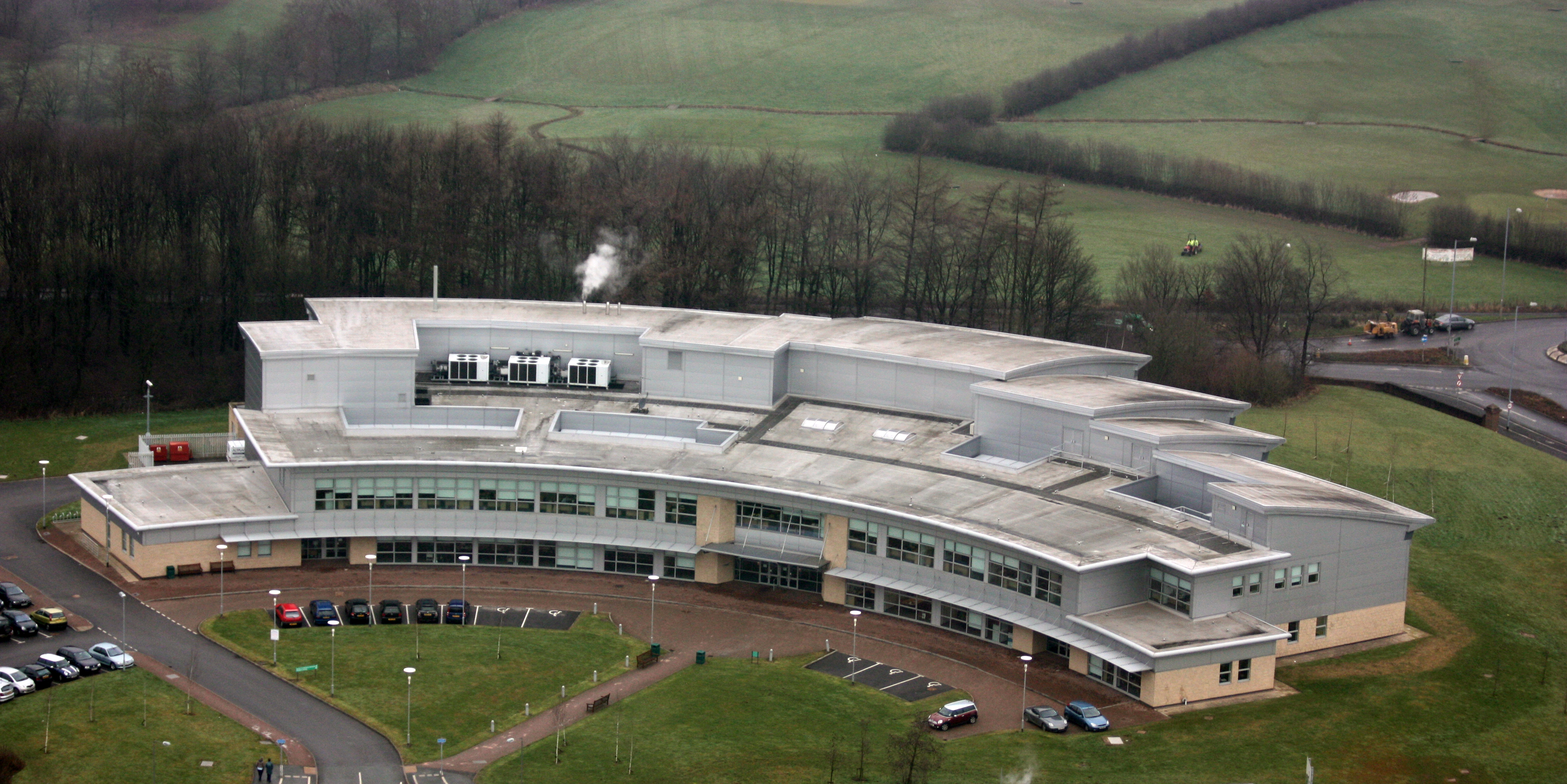 The School of Medicine at Keele University as seen from a Grob Tutor T1 of UBAS.